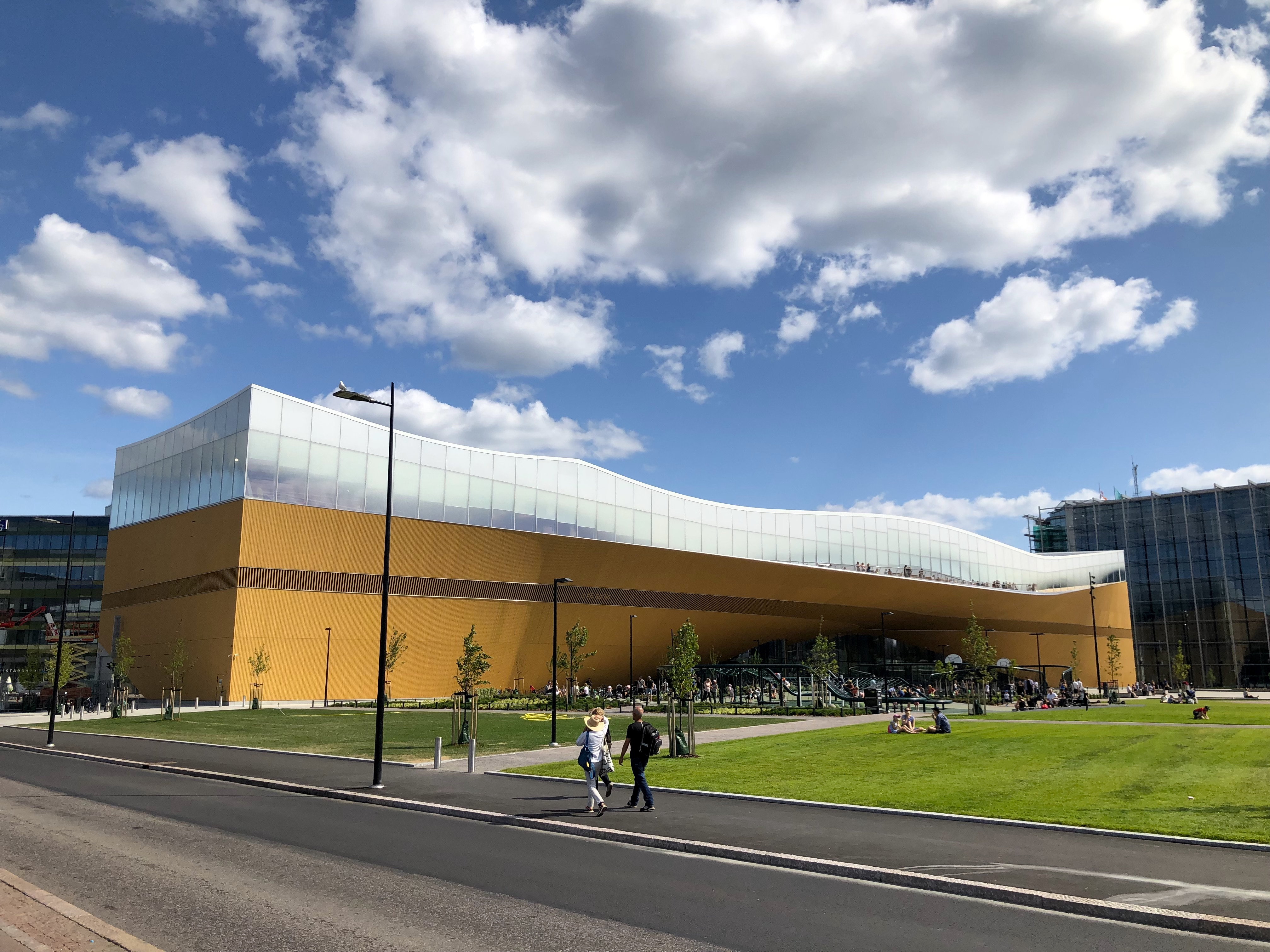 Helsinki Central Library Oodi in July 2019.